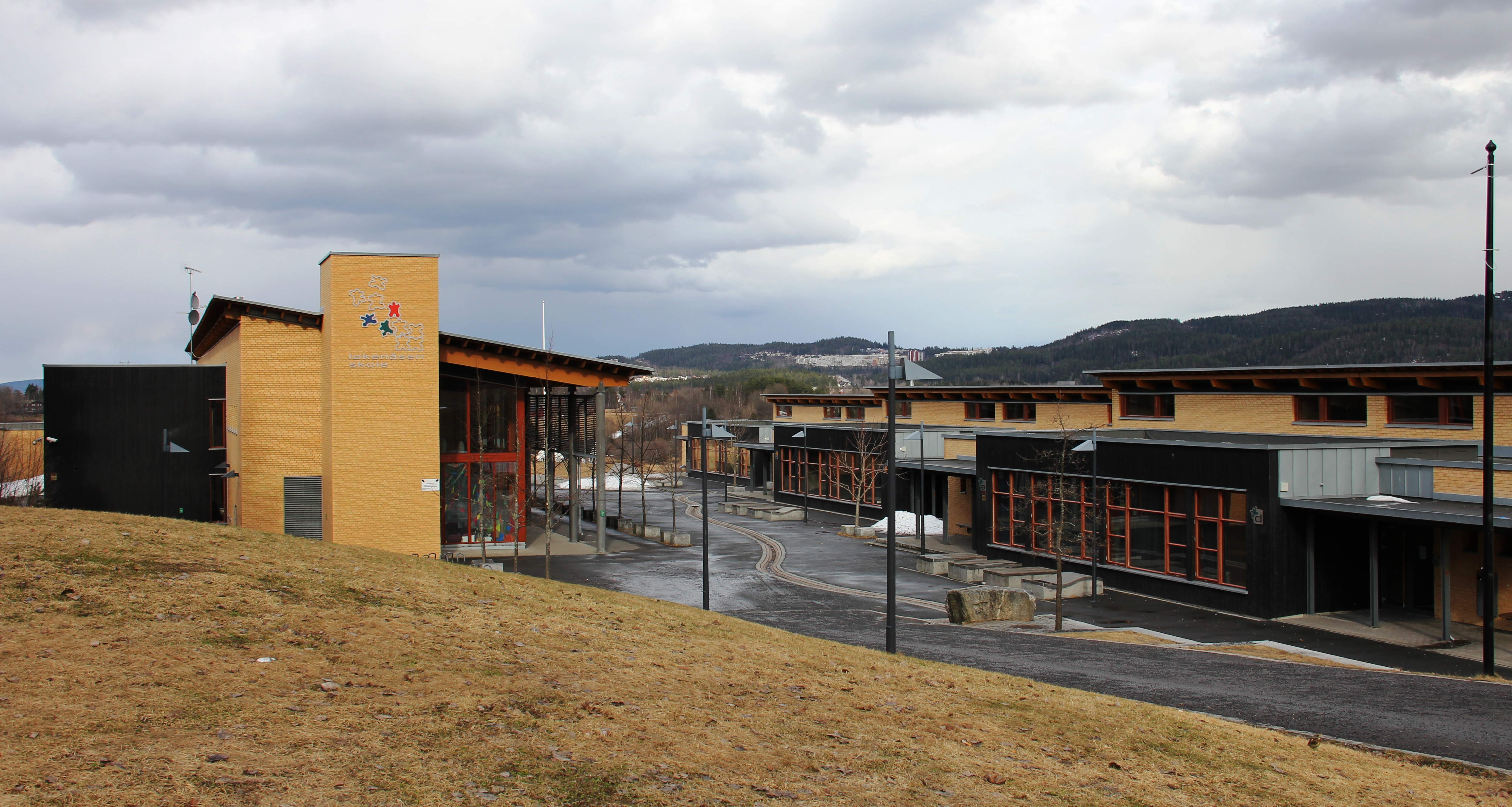 Løkensåsen school in Lørenskog, Norway